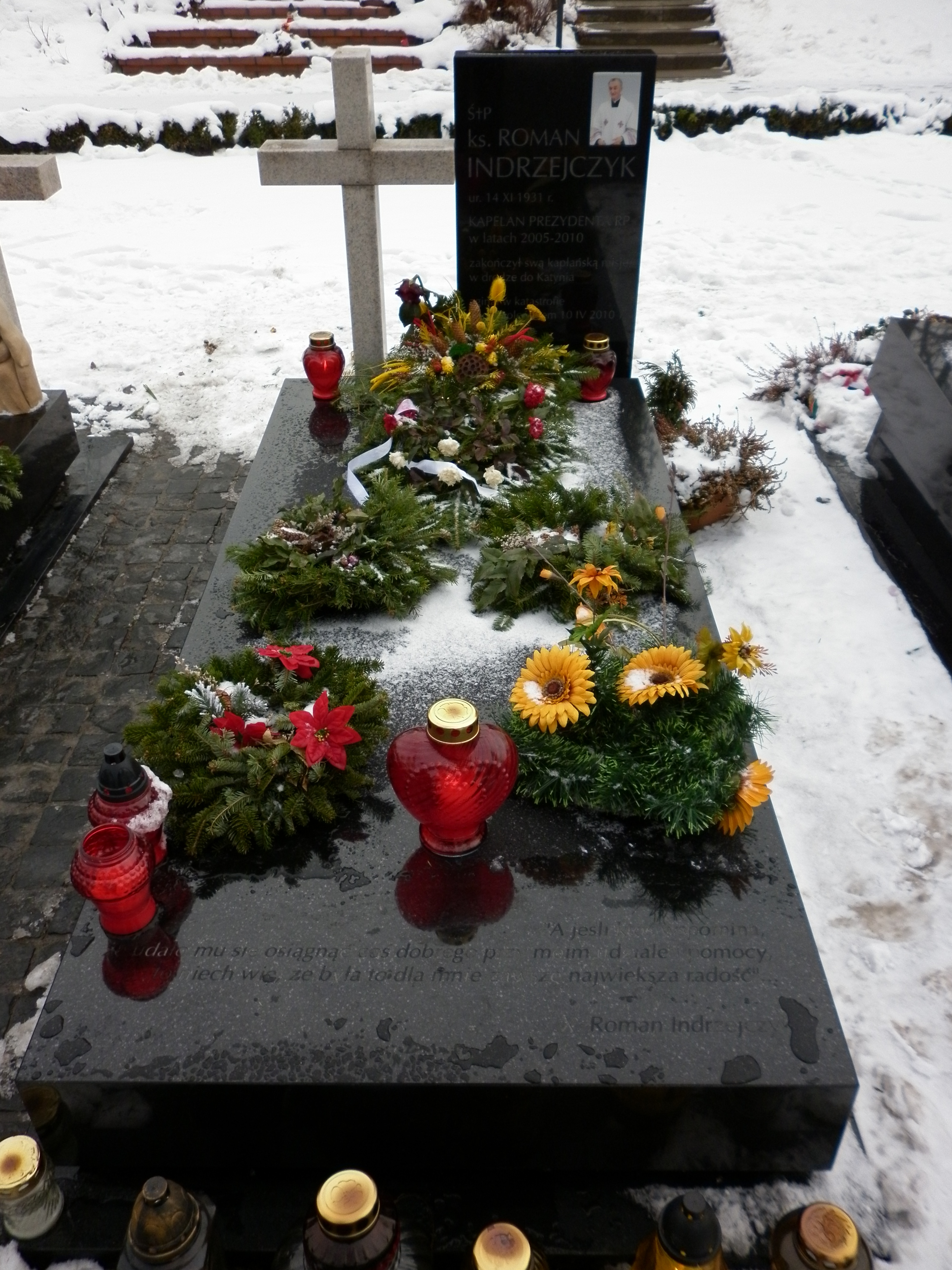 Roman Indrzejczyk Tomb on Powązki